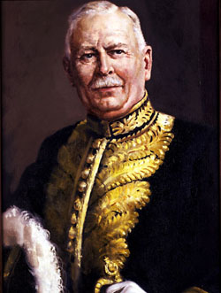 Robert Randolph Bruce (1861-1942)